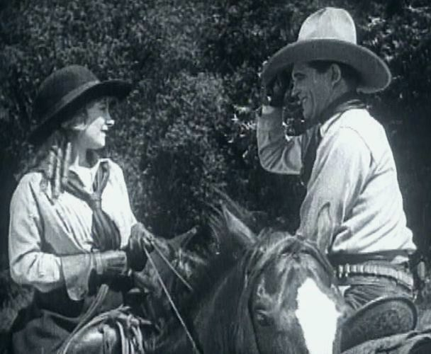 Josephine Hill and Bud Osborne in His Enemy's Friend (1922) - cropped screenshot